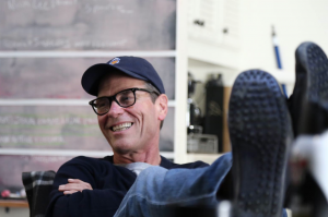 Steve "Renman" Rennie at desk